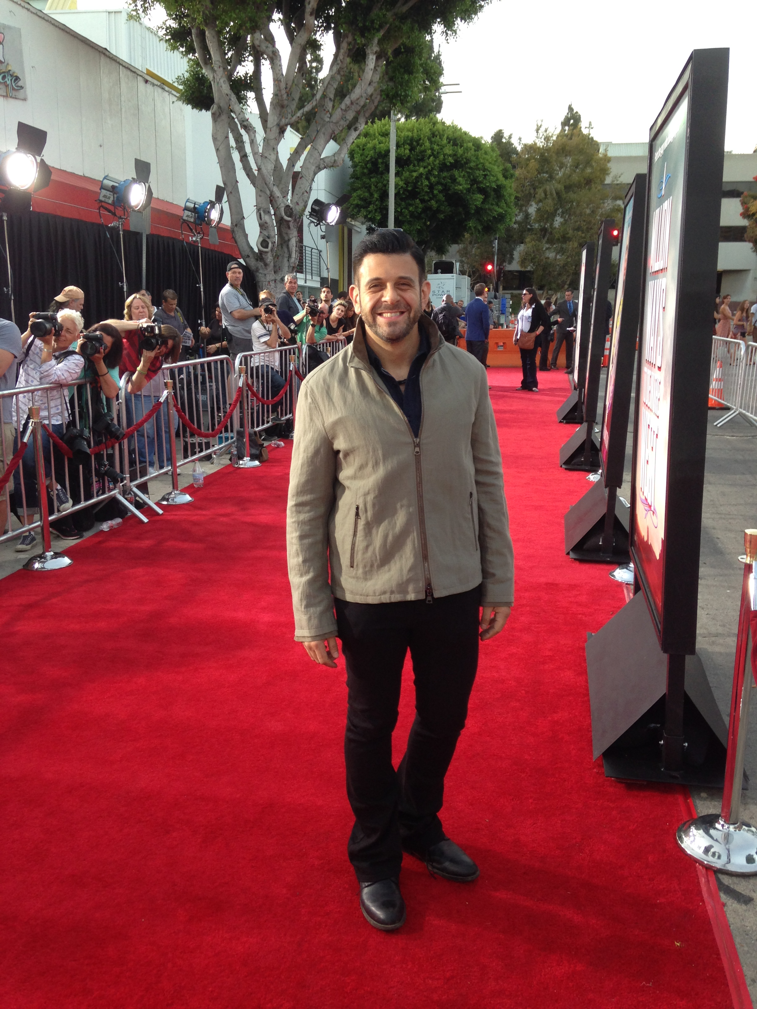 Adam Richman on a red carpet.